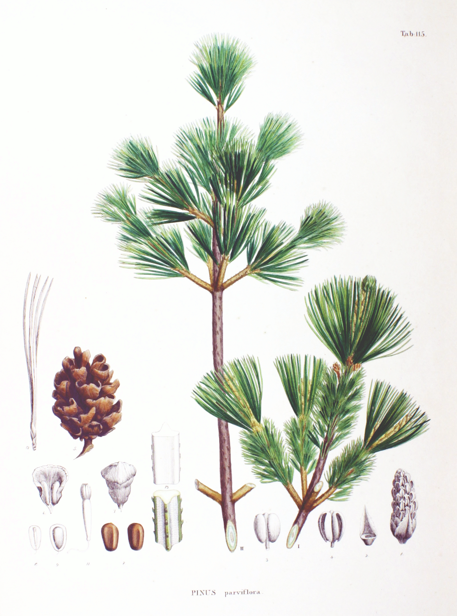 Plate from book